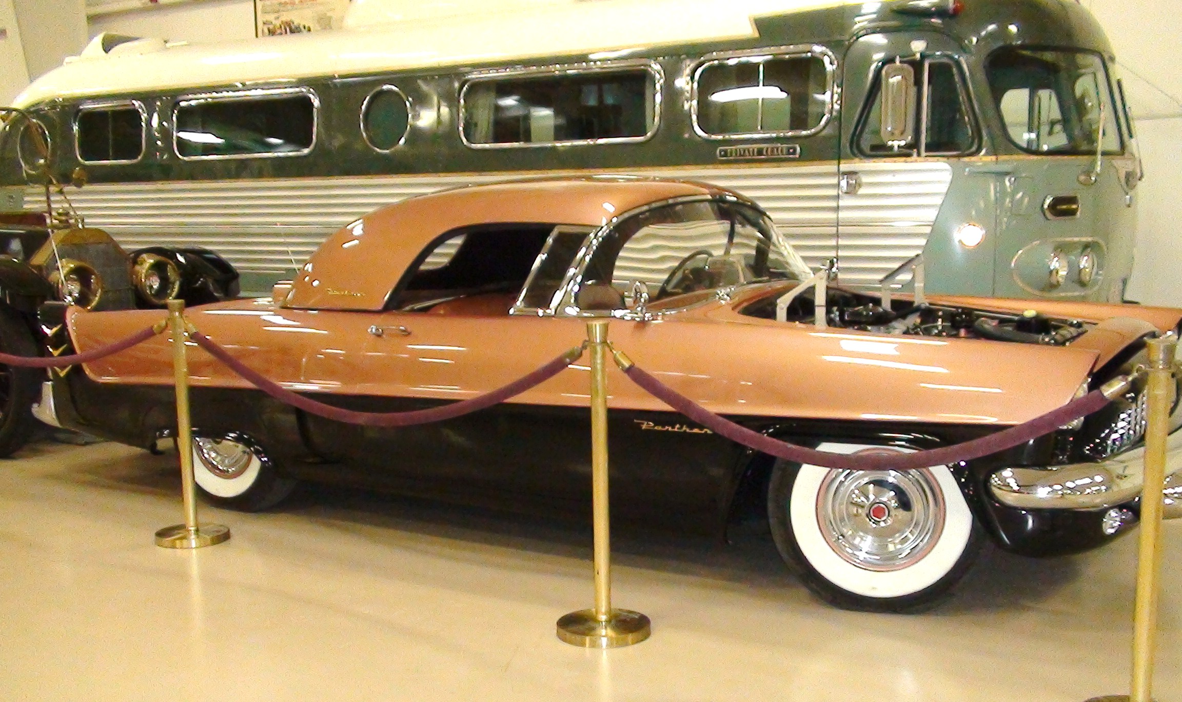 Packard Panther Daytona showcar (1954) with supercharged straight eight engine; one of five built, two with rear end adapted for 1955 taillights and only one with removable hardtop